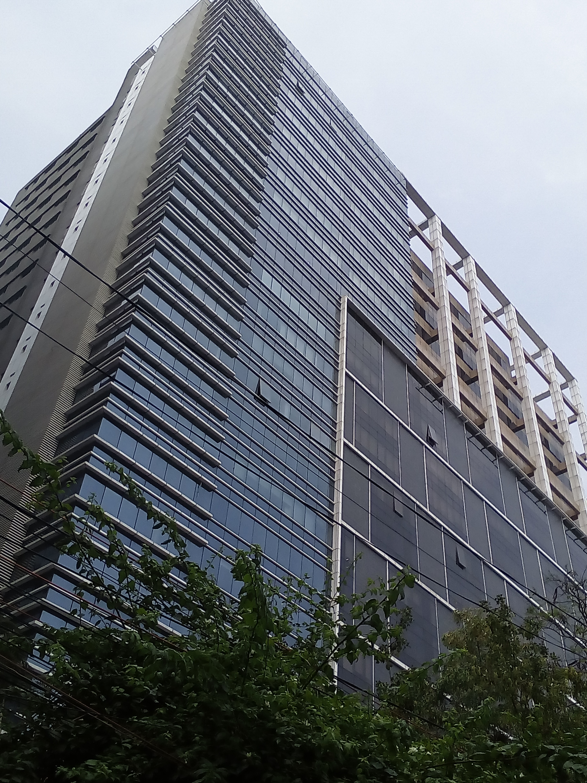 Infinity Business Center, Salt Lake Sector V, Kolkata